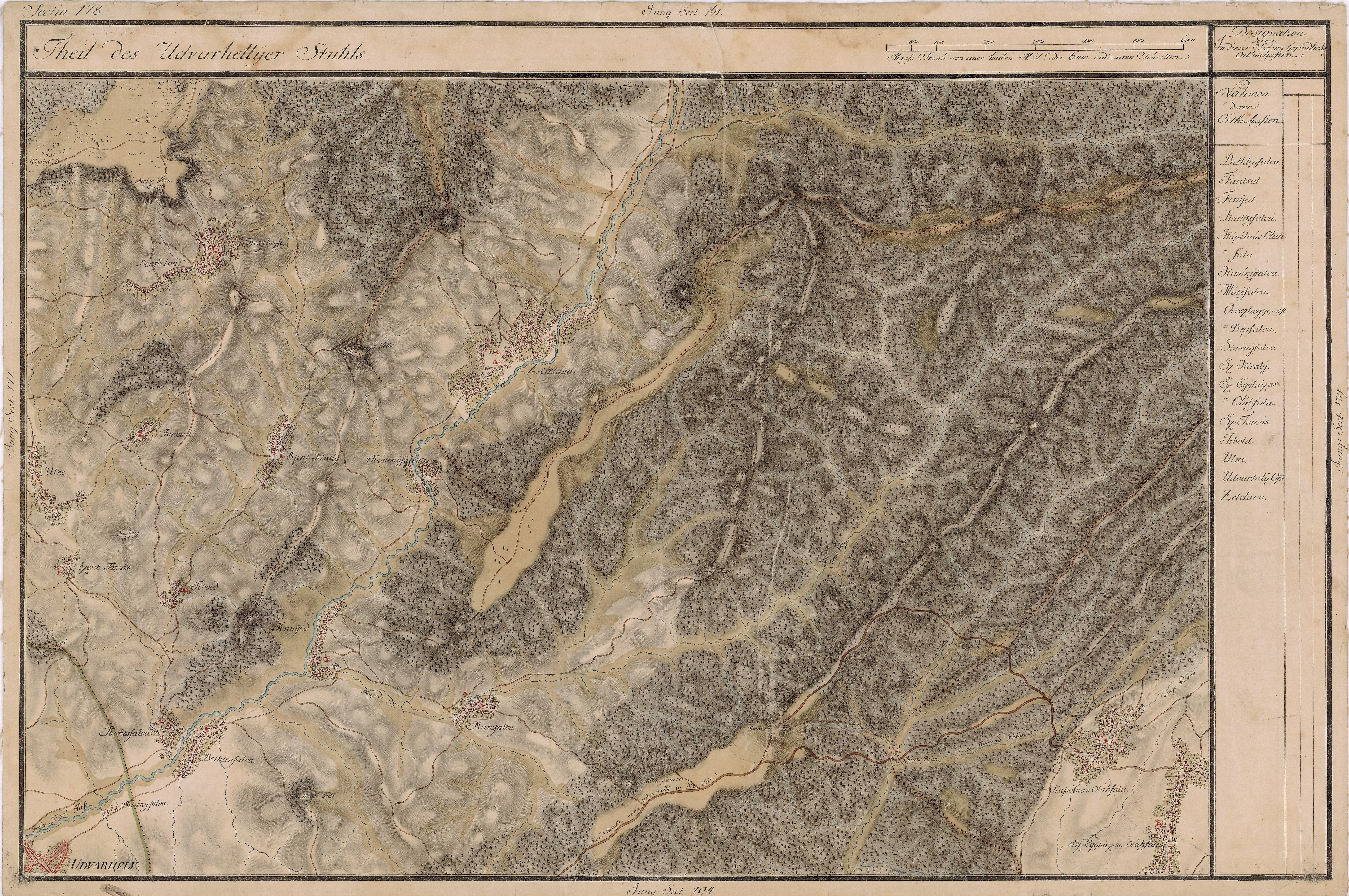 Grand Duchy of Transylvania, 1769-1773. Josephinische Landaufnahme pg.178